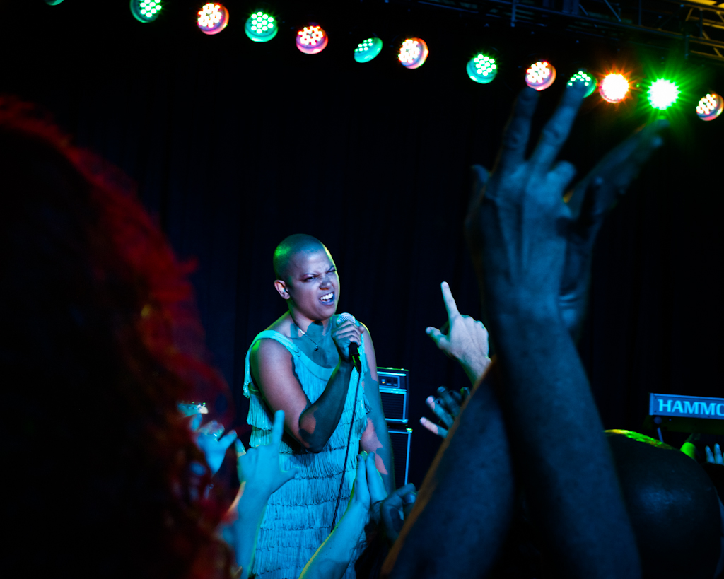 Heather Henderson of the No God Band at Penn Jillette’s Private Rock & Roll, Bacon & Doughnut Party during TAM 9 (The Amazing Meeting) in Las Vegas, NV. Taken on July 15, 2011.